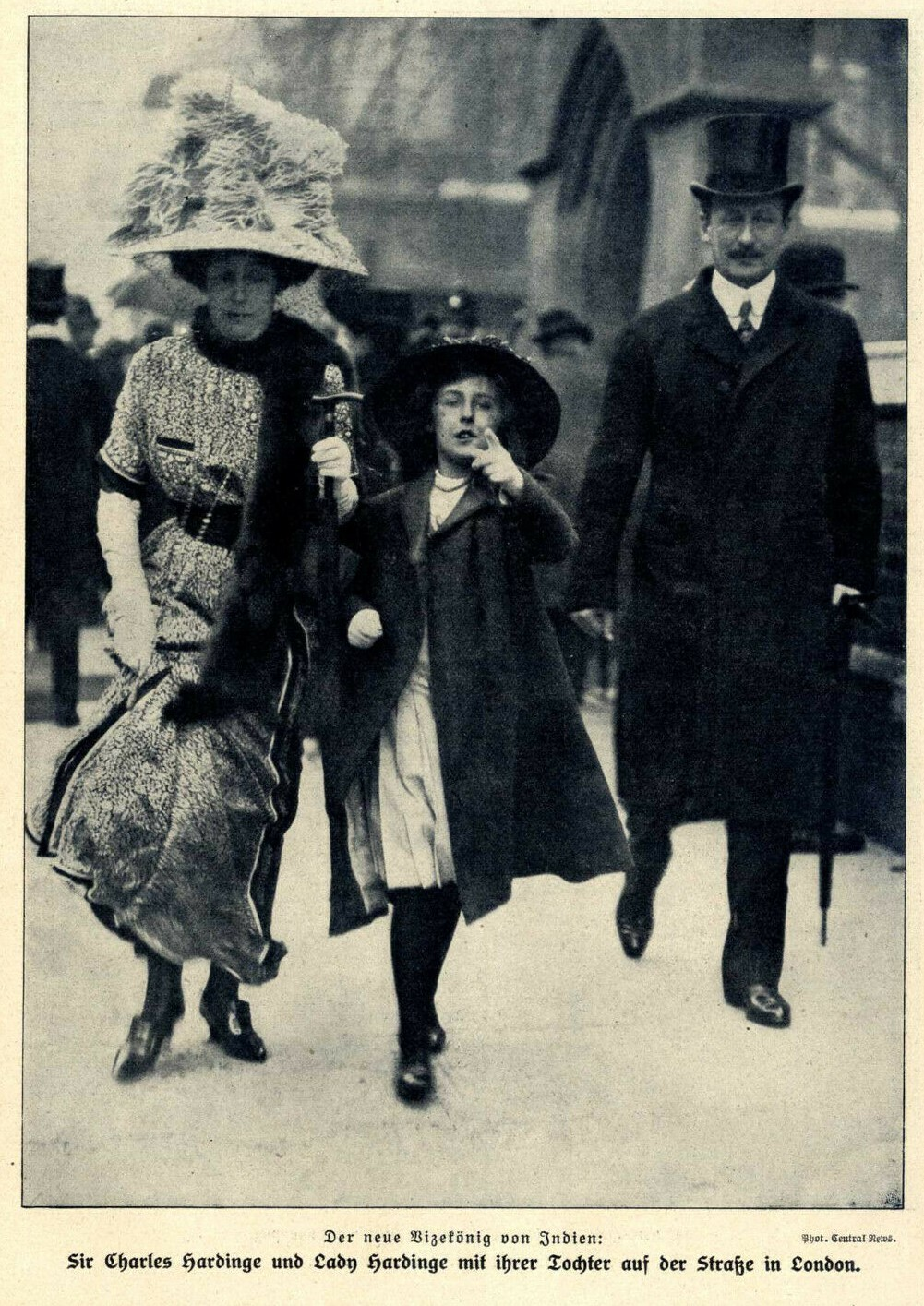 Sir Charles Hardinge and Lady Winifred Hardinge with their daughter Diamond Hardinge, 1910